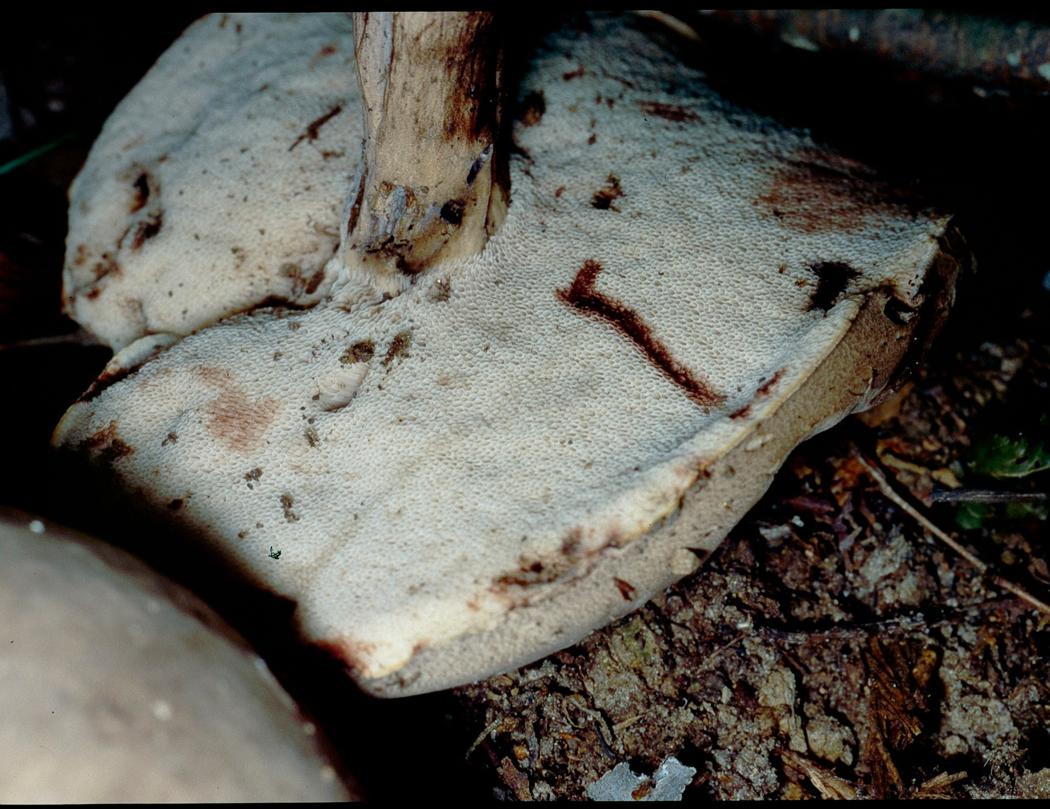 The pore surface of the bolete mushroom Tylopilus atronicotianus Both. Specimen found in Big Thicket, Polk Co., Texas, USA.